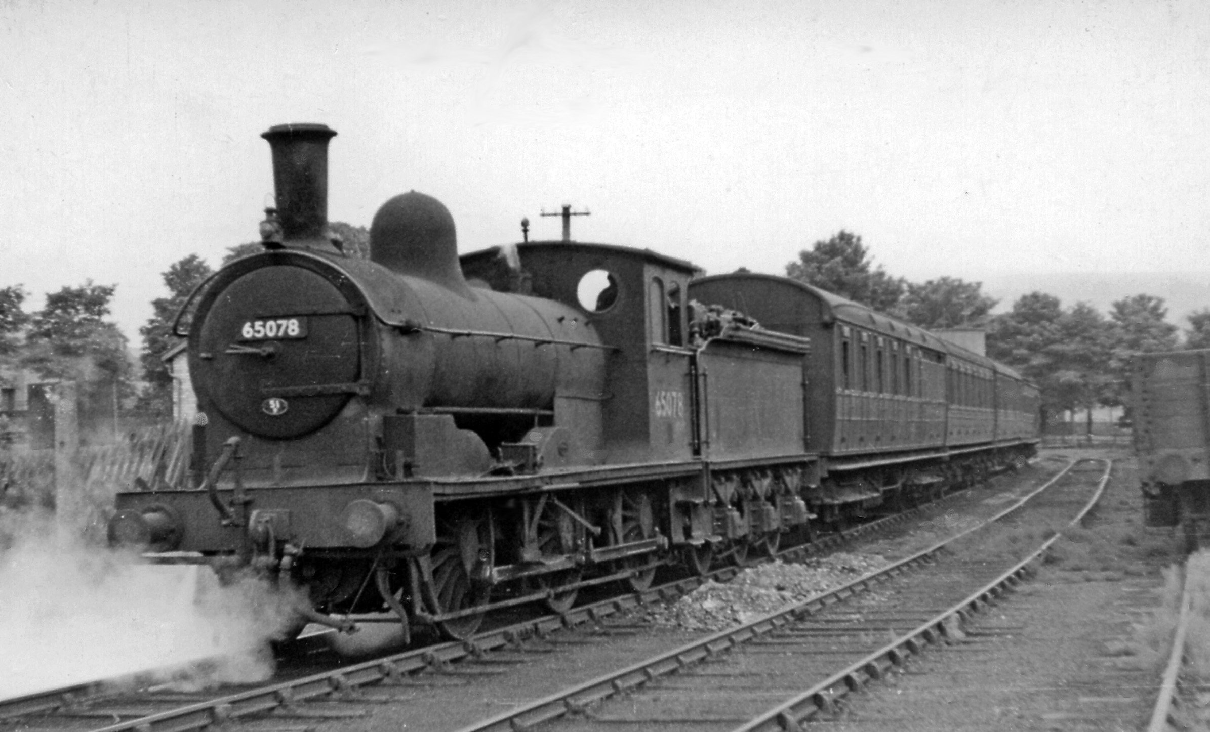 Last Train waiting to leave Wearhead for Bishop Auckland. View NW, towards buffer-stops; ex-NE terminus of line from Bishop Auckland, 27/6/53: the locomotive is ex-NE J21 No. 65078. Goods traffic continued up the valley as far as St John's Chapel until 2/1/61; a passenger service, Bishop Auckland - Stanhope was restored by the Weardale Railway from 23/5/10. See also 2047797 and NZ2029 : The Last Train to Wearhead waits to leave Bishop Auckland Station.